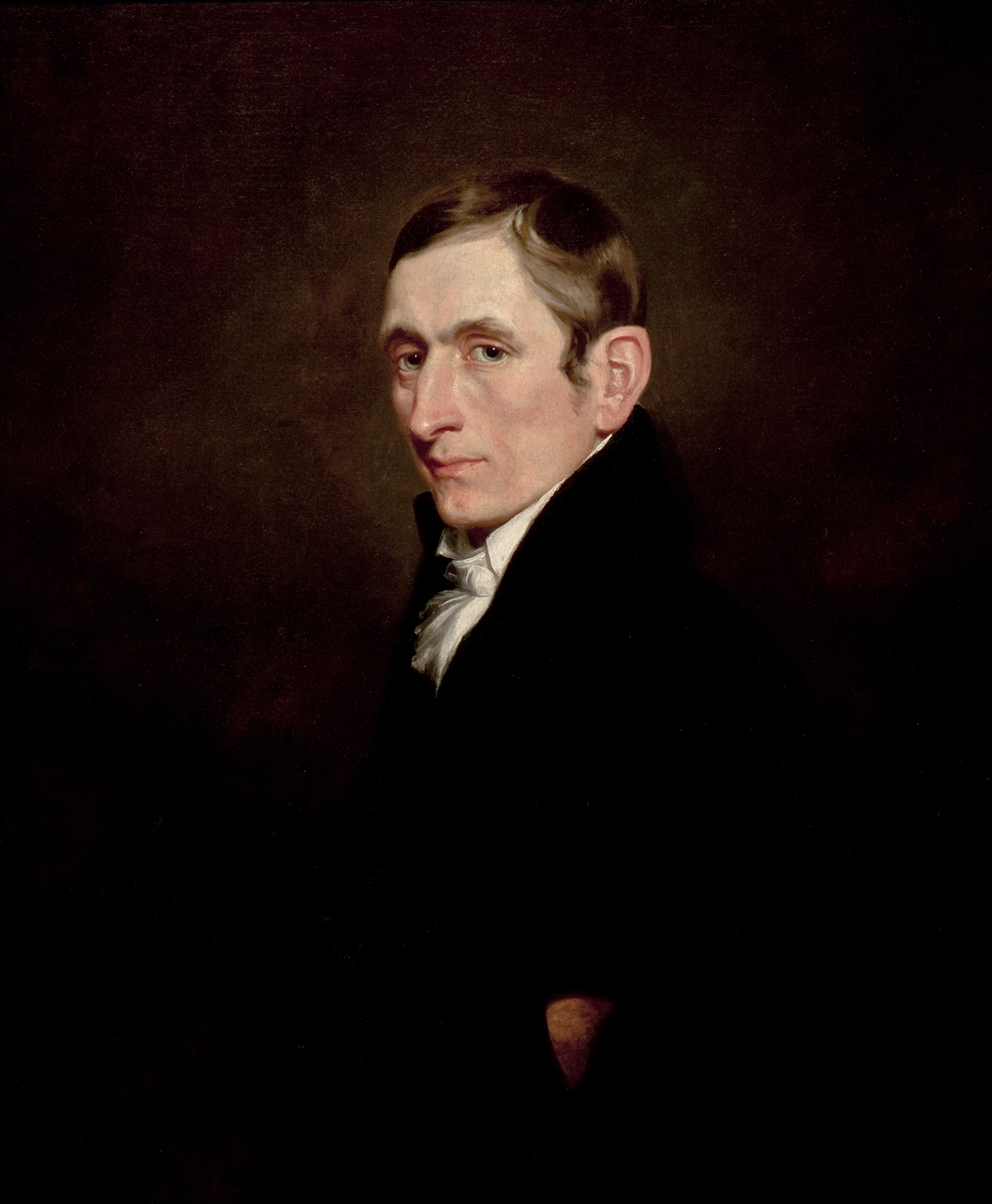 Oil on canvas portrait of Jeremiah Evarts, painted around 1817 by Samuel F.B. Morse. The painting is in the collection of The Charles Hosmer Morse Museum of American Art.